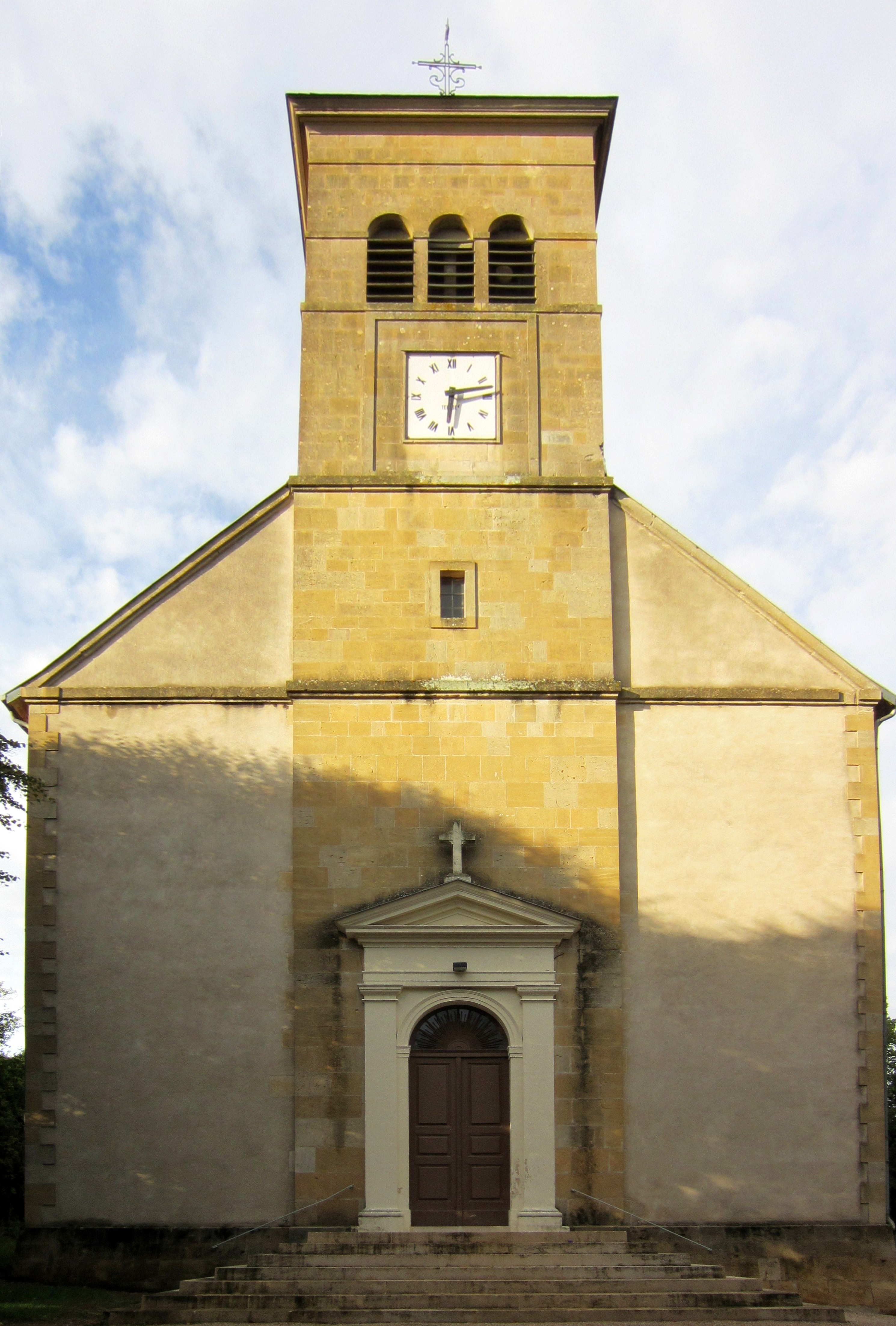 Description eglise Noveant Moselle Date12 September 2011Sourcemon appareil photoAuthorAimelaimePermission (Reusing this file) eglise Noveant Moselle